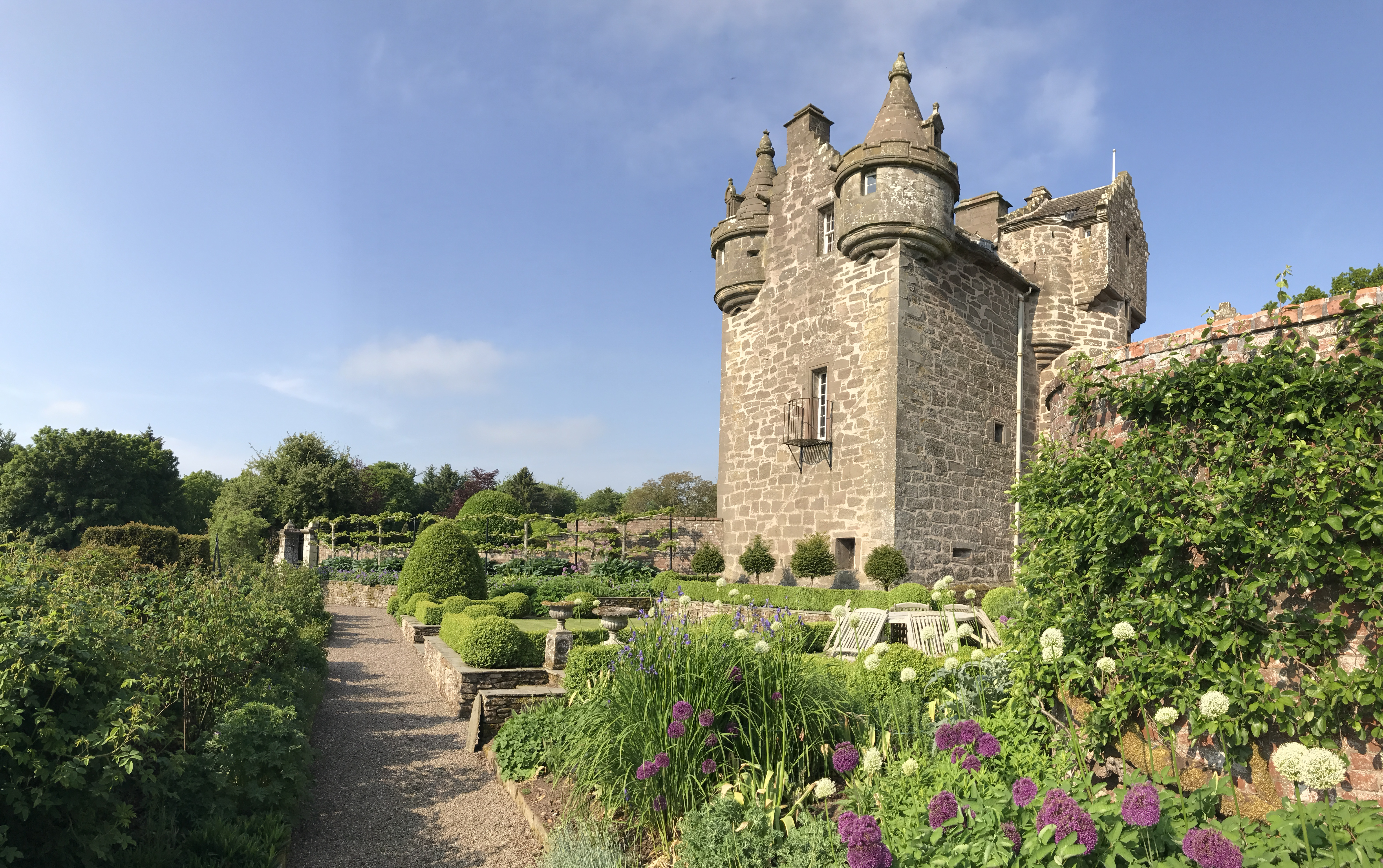 Gardyne Castle from walled garden